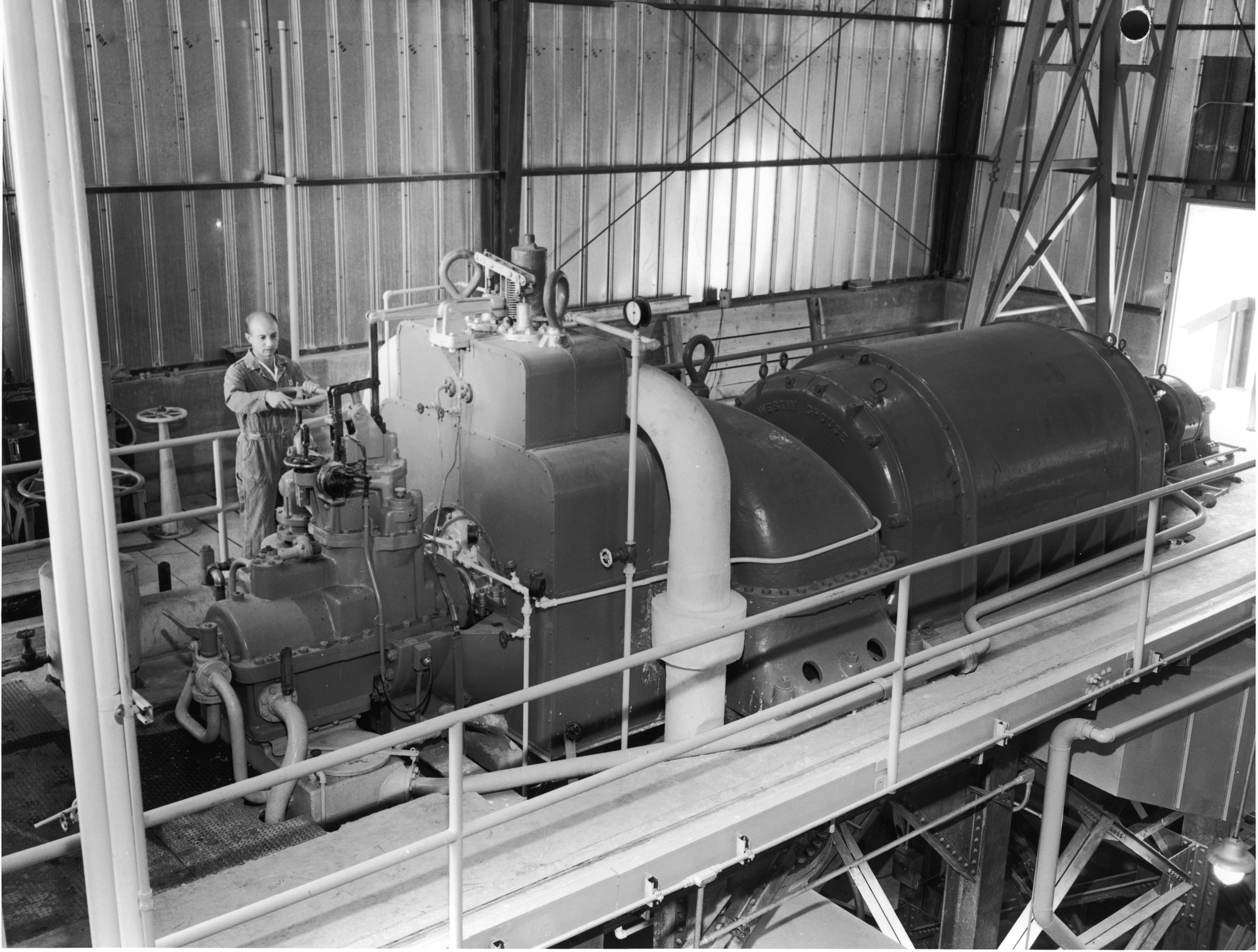 On July 17, 1955, Argonne's BORAX III reactor provided all the electricity for Arco, Idaho, the first time any community's electricity was provided entirely by nuclear energy.